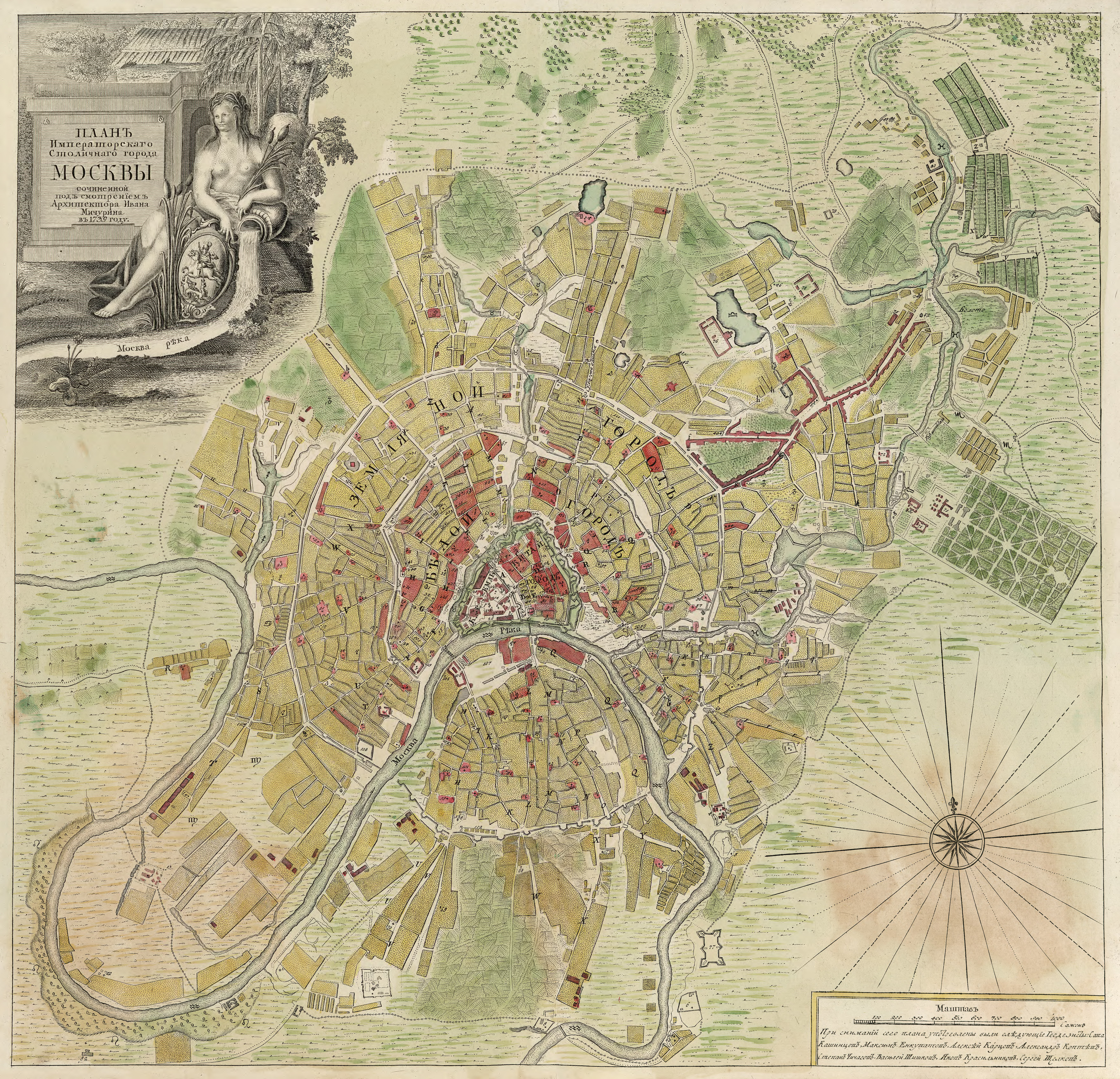 Moscow map by Ivan Michurin, 1739. See also map explanation.